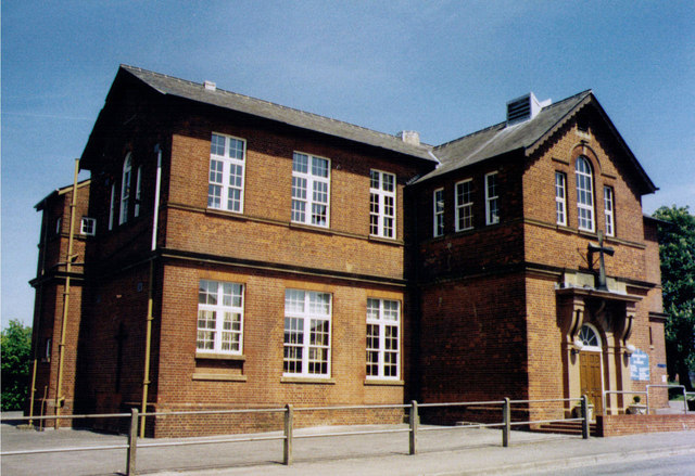 St George, Bordon Built as the RA Institute but converted to the Garrison Church in 1983.